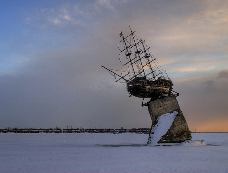 Monument to the first Russian ship (Barca-longa), "Mercury", in Voronezh. Баркалон «Меркурий» построенный на Рамонской верфи. Памятник-макет.